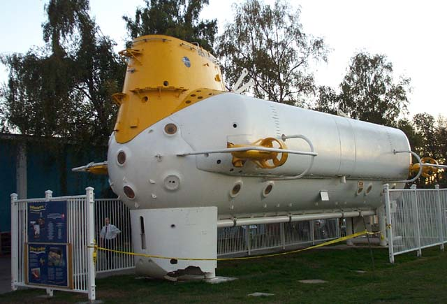 The Mesoscaphe Ben Franklin/Grumman-Piccard PX-15 as it appears today at the Vancouver Maritime Museum.